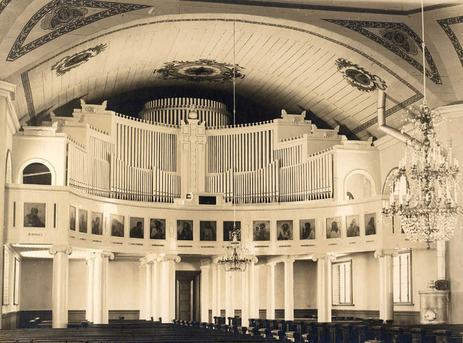 Organ of Jämsä old church in Finland